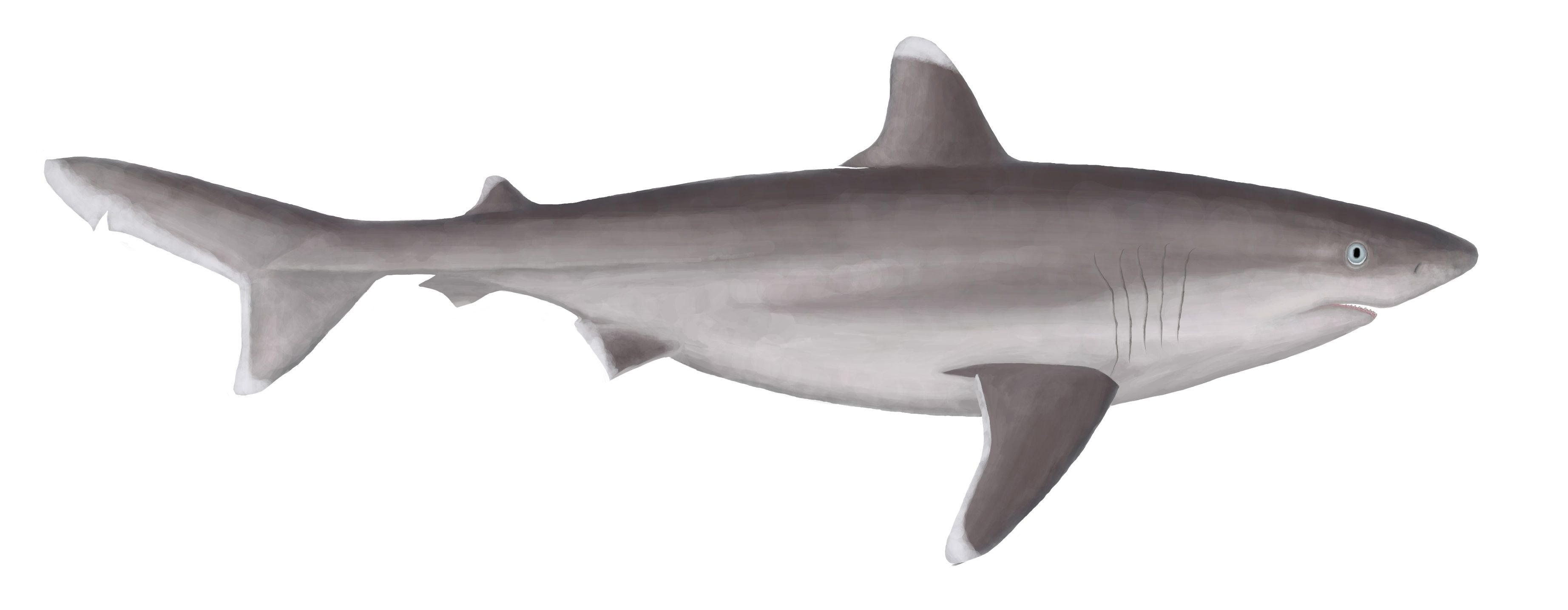 Reconstruction of Squalicorax falcatus, based on the skeletal reconstruction provided by Shimada and Cicimurri (2005).